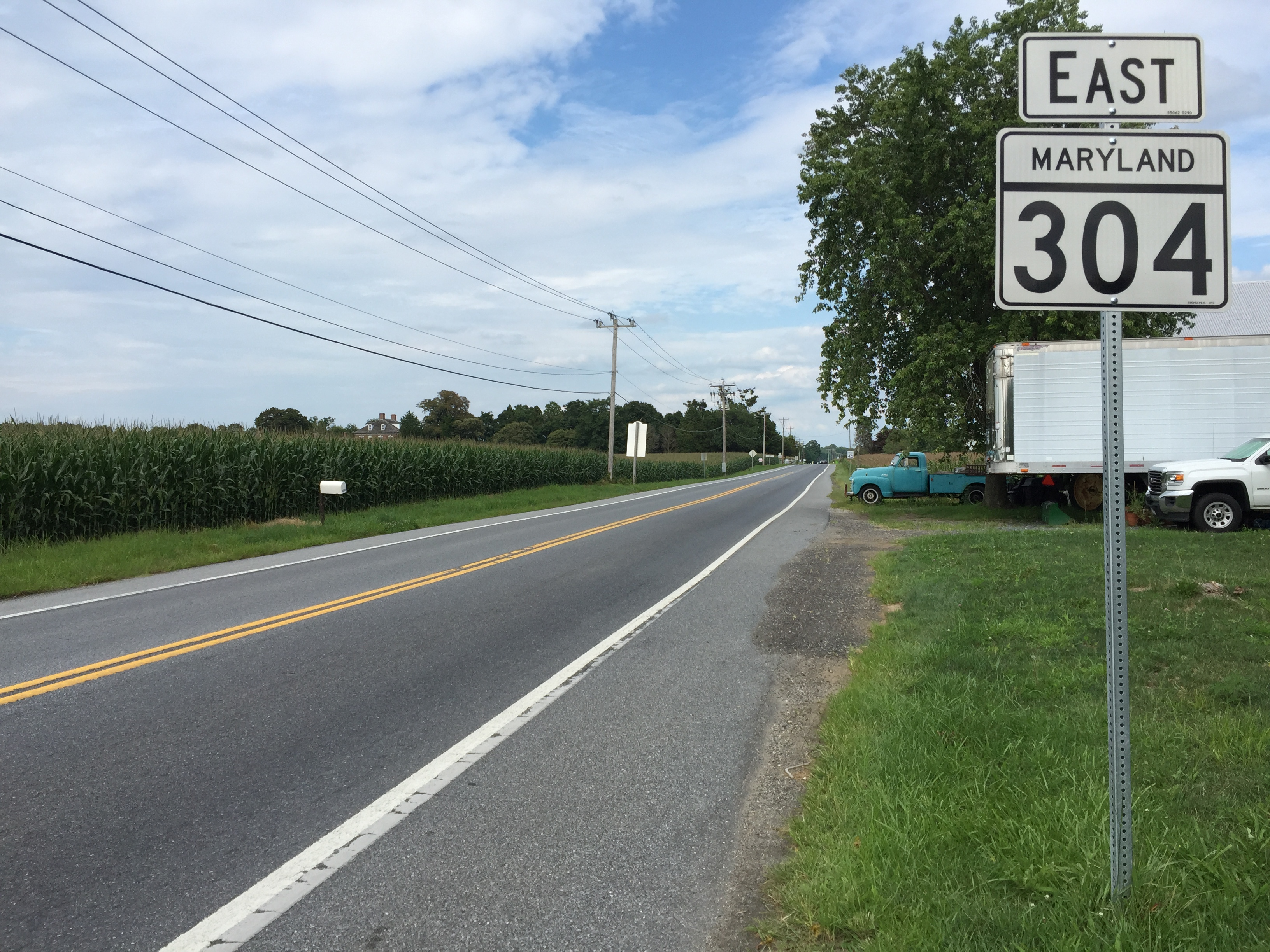 View east along Maryland State Route 304 (Ruthsburg Road) at Maryland State Route 481 (Damsontown Road) in Ruthsburg, Queen Anne's County, Maryland